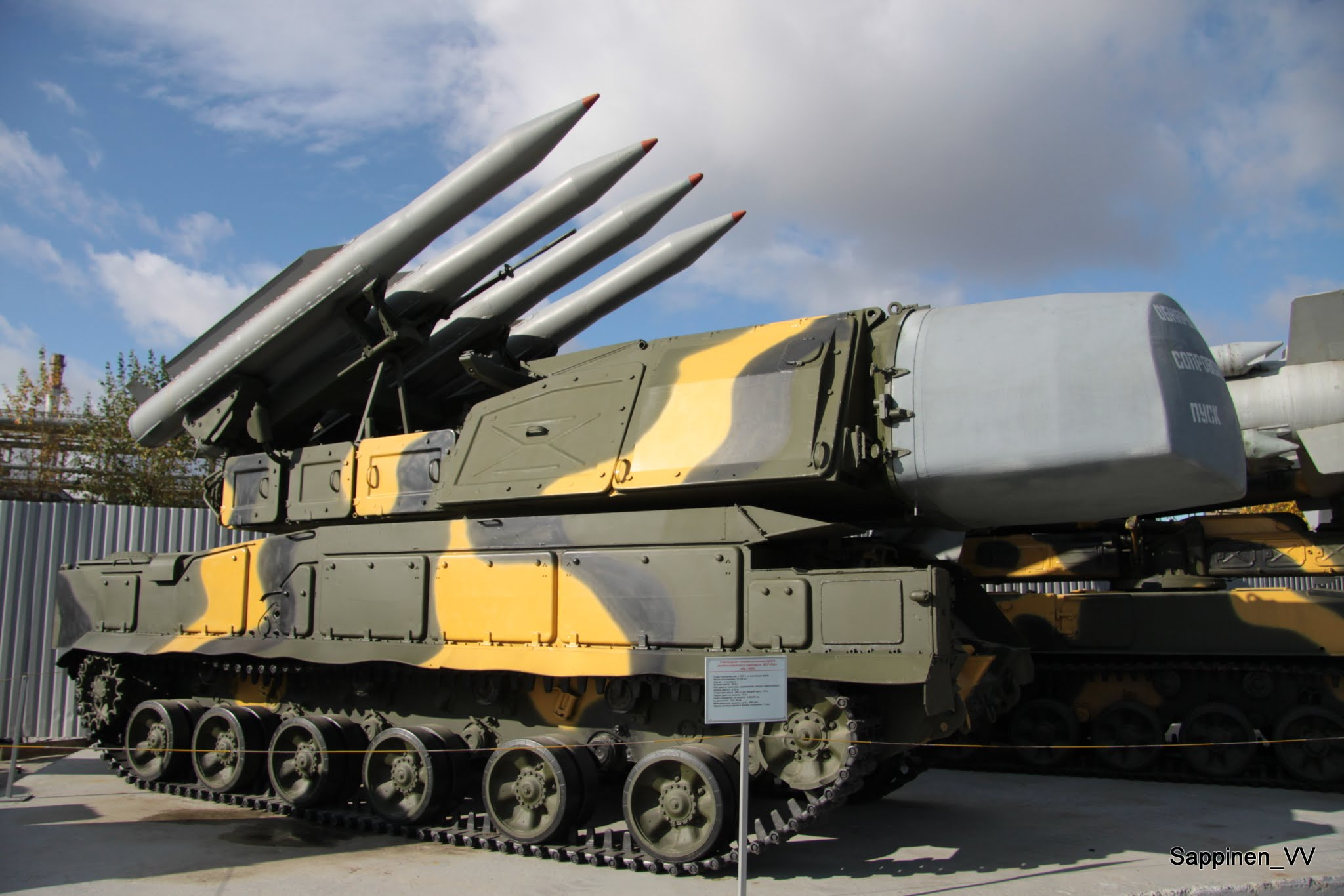 Verkhnyaya Pyshma Tank Museum 2012